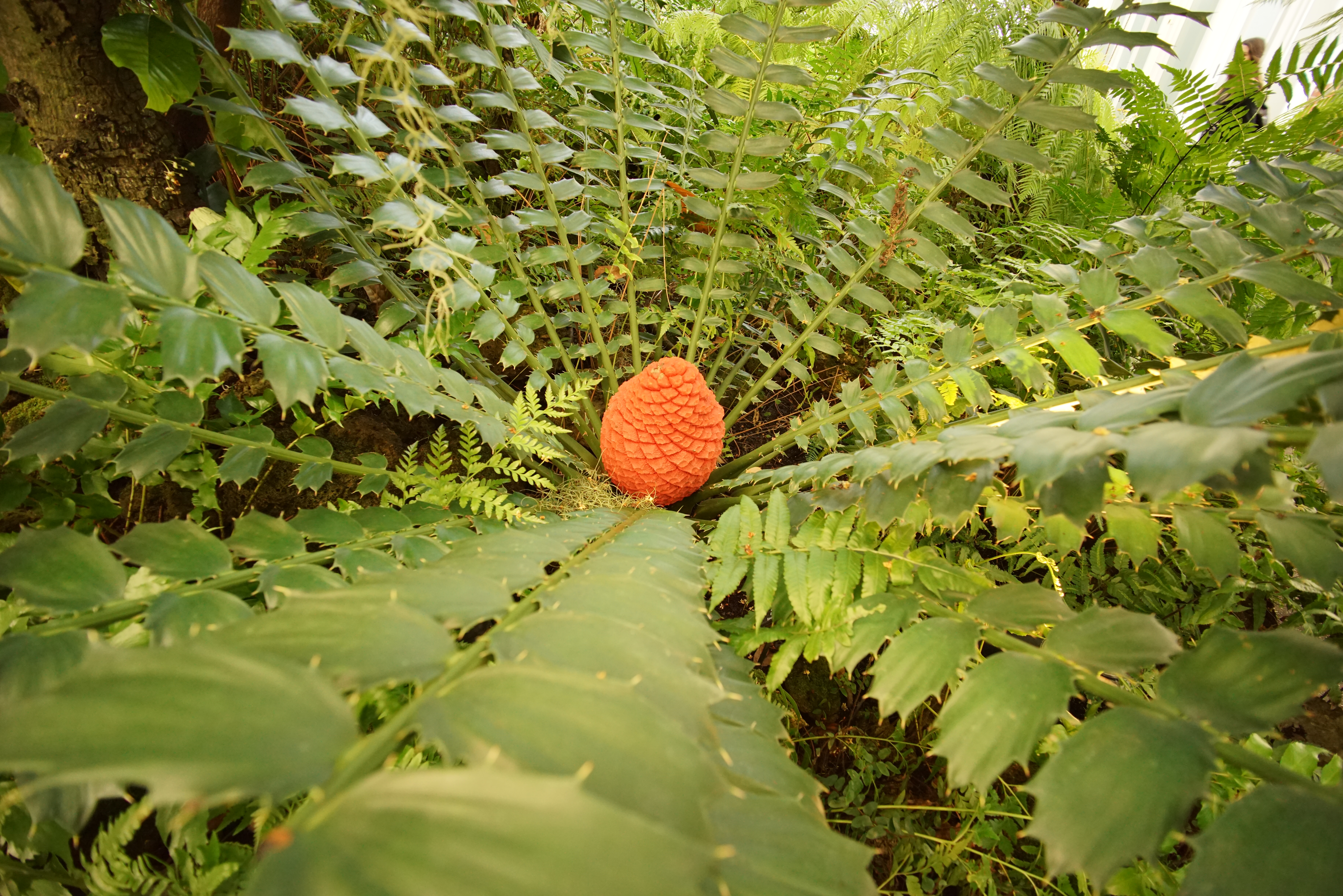 A fern at the Phipps Conservatory. The Phipps Conservatory and Botanical Gardens is a complex of buildings and grounds set in Schenley Park, Pittsburgh, Pennsylvania. Founded in 1893, the gardens serve to educate and entertain the people of Pittsburgh with formal gardens.